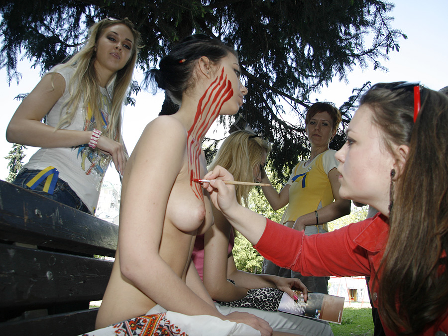 17 May 2010 FEMEN Activist prepare to pose topless at Bankovaya St with President of Ukraine sign at the background. Bear scratches symbolize their protest against a pro-Russian politics of Yanukovich that will lead to ruining national interests and influence badly on women.